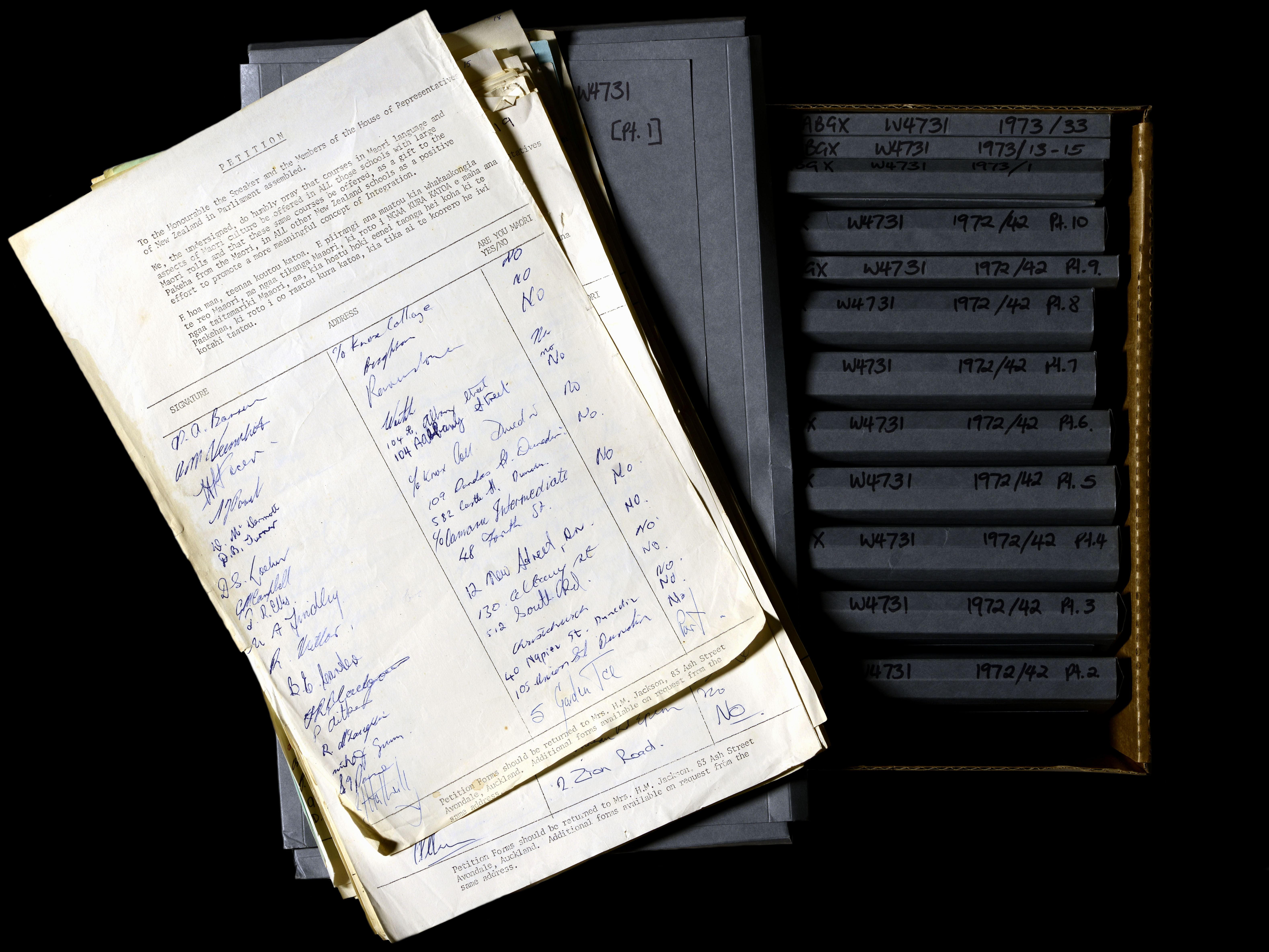 In 1985 the Waitangi Tribunal heard the historic Te Reo Māori claim. This asserted that te reo Māori (the Māori language) was a taonga (treasure) that the Crown was obliged to protect under the Treaty of Waitangi. The Waitangi Tribunal found in favour of the claimants and recommended a number of legislative and policy remedies. One of these was the Maori Language Act. On 1 August 1987 this Act came into force, making te reo Māori an official language of New Zealand. The Act also established the Maori Language Commission to promote the use of Māori as a ‘living language’ and ‘an ordinary means of communication’. The Act was the result of a long struggle by Māori and their allies. Between 1920 and 1960 there was a significant decline in the number of speakers of te reo Māori. The 1970s saw an increase in political and cultural action to revitalise the language, change attitudes towards te reo and support political issues including land and te Tiriti o Waitangi rights. In 1972 the influential group, Ngā Tamatoa, collected this petition of over 30,000 signatures. It called for the government to offer Māori language in schools, as a gift from Māori to Pākehā. It was an important public act which included the delivery of the petition to Parliament on 14 September 1972. That year the group was also instrumental in establishing Māori Language Day, which extended to Māori Language Week in 1975. Māori Language Week, Te Wiki o te Reo Māori, continues to this day. Archives Reference: ABGX 16127 W4731 Box 152/ 1972/42 For updates on our On This Day series and news from Archives New Zealand, follow us on Twitter Material from Archives New Zealand Caption information from and